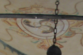 Traby coat of arms in Baranow-Sandomierski castle. Detail of Image:Baranów Sandomierski - castle 04.JPG full resolution, by User:Piotrus and tagged with the same “self2.GFDL.cc-by-sa-2.5,2.0,1.0” license.